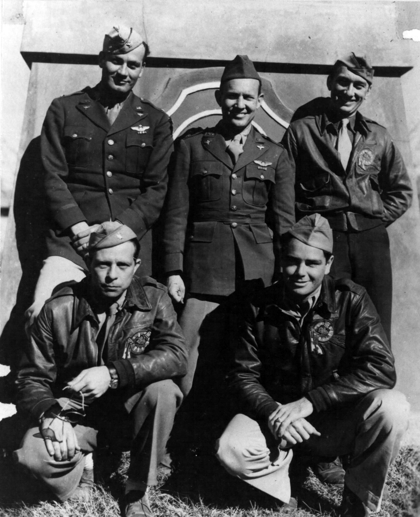 Top row, from left: Col. Clinton D. "Casey" Vincent, Lt. Col. John R. Alison (commander of the 75th Fighter Squadron), and Col. Bruce K. Holloway (commander of the 23rd Fighter Group, and later commander of the Strategic Air Command). Foreground, from left: Lt. Col. Albert T. "Ajax" Baumler and Lt. Col. Grattan "Grant" Mahony (commander of the 76th Fighter Squadron) in China (1943). (U.S. Air Force photo)Photo taken in China. Fighter unit commanders were subordinate to Major General Claire Chennault.